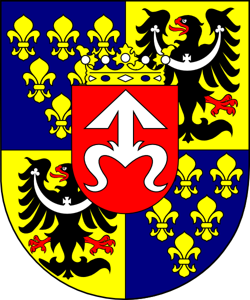 Coat of arms (shield only) of Leopold von Sedlnitzky, bishop of Wrocław, Poland (1835 - 1840).